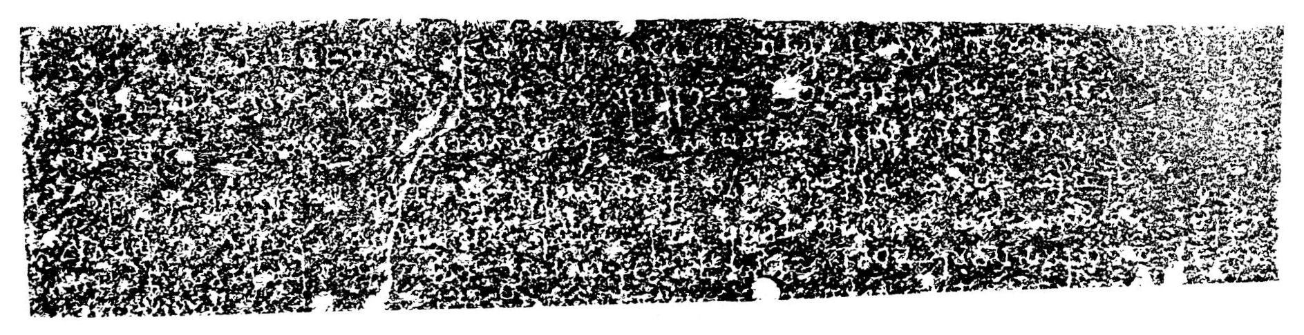 Nasik inscription No4, Cave No3